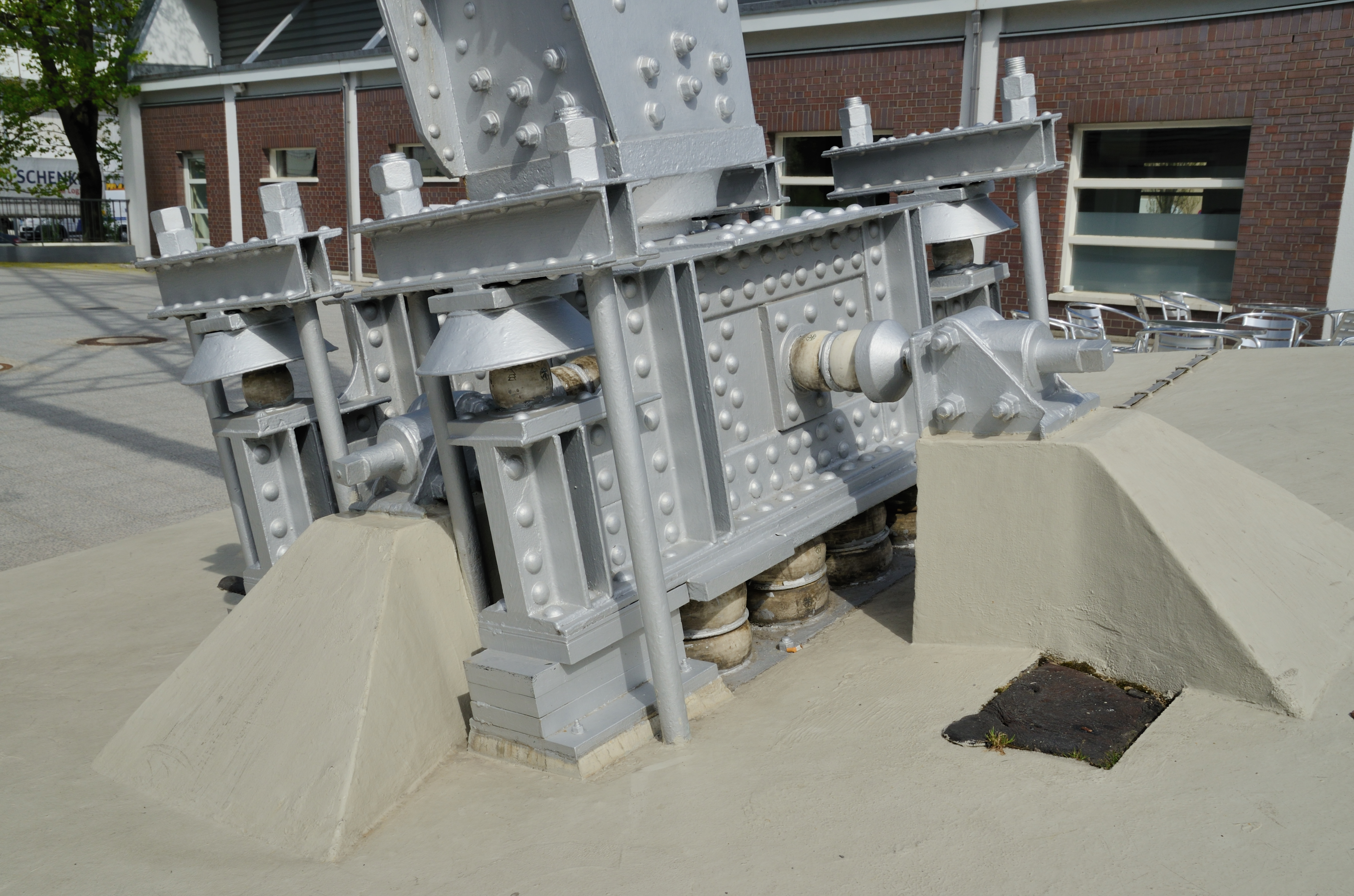 Funkturm Berlin: porcelain isolators at tower base